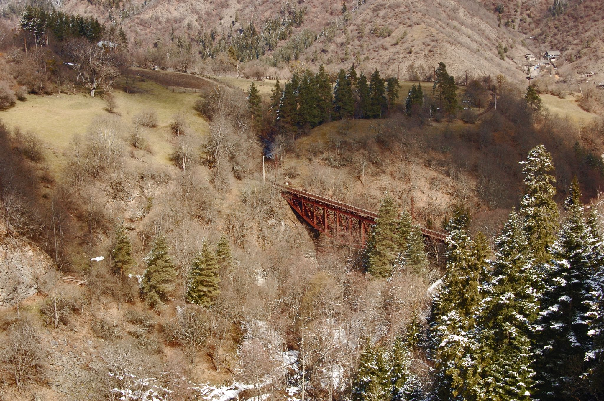 it is called Eiffel bridge, and as I was told, it was built by Gustav Eiffel, the same who did the tower in Paris. I tried to look it up, but all I found was a one sentence reference to it, a claim that it was built for the son of tzar Nicholas I. It is still operational, and a train (called kukushka - cuckoo) still goes over it to get from Borjomi to Bakuriani. One day I should get a ride...